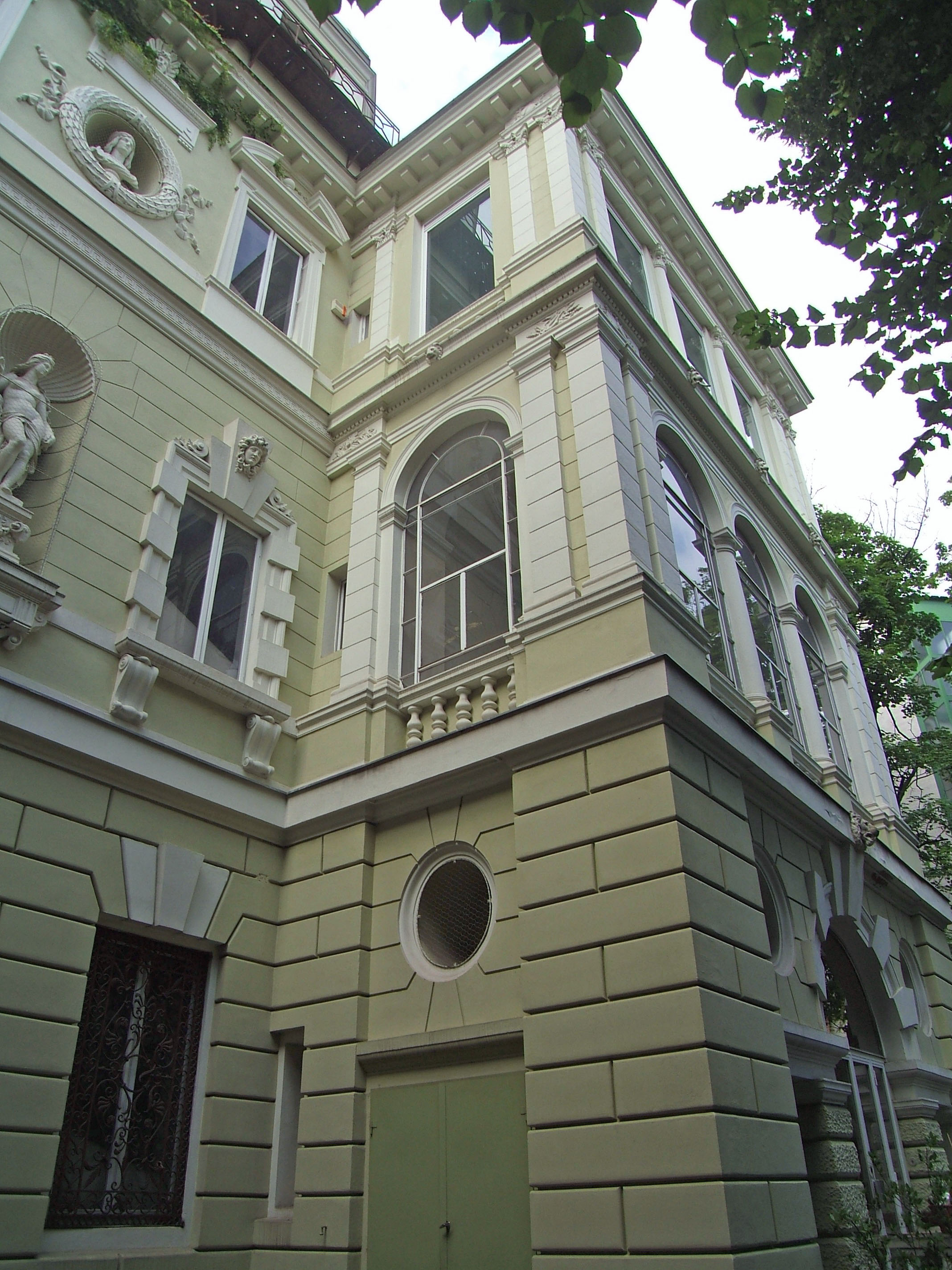 View of the garden front of palais Haas in Vienna 4th district Waaggasse